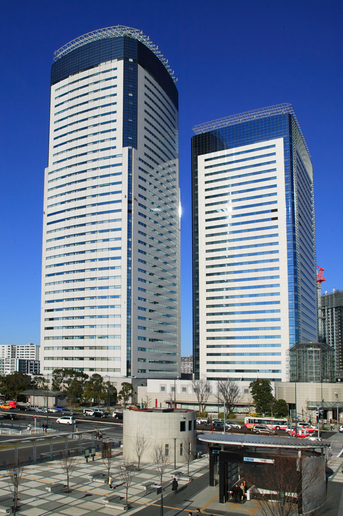 Toyosu Center Building ( Left ) and Annex